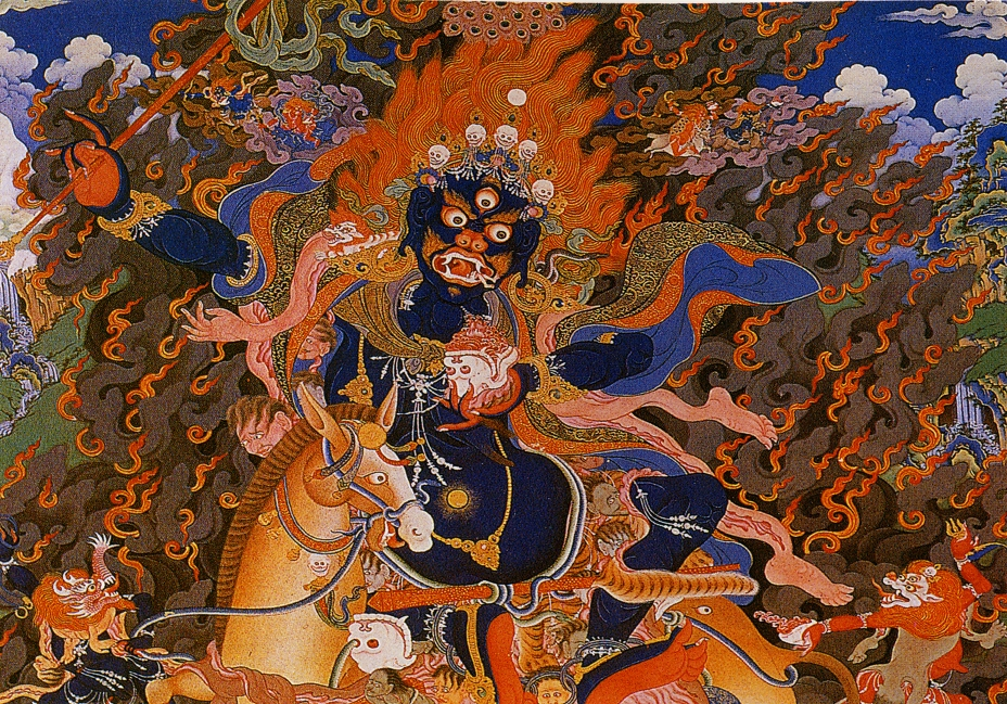 The goddess Palden Lhamo (dPal-ldan lha-mo), as depicted in a thangka from the Potala Palace, Lhasa